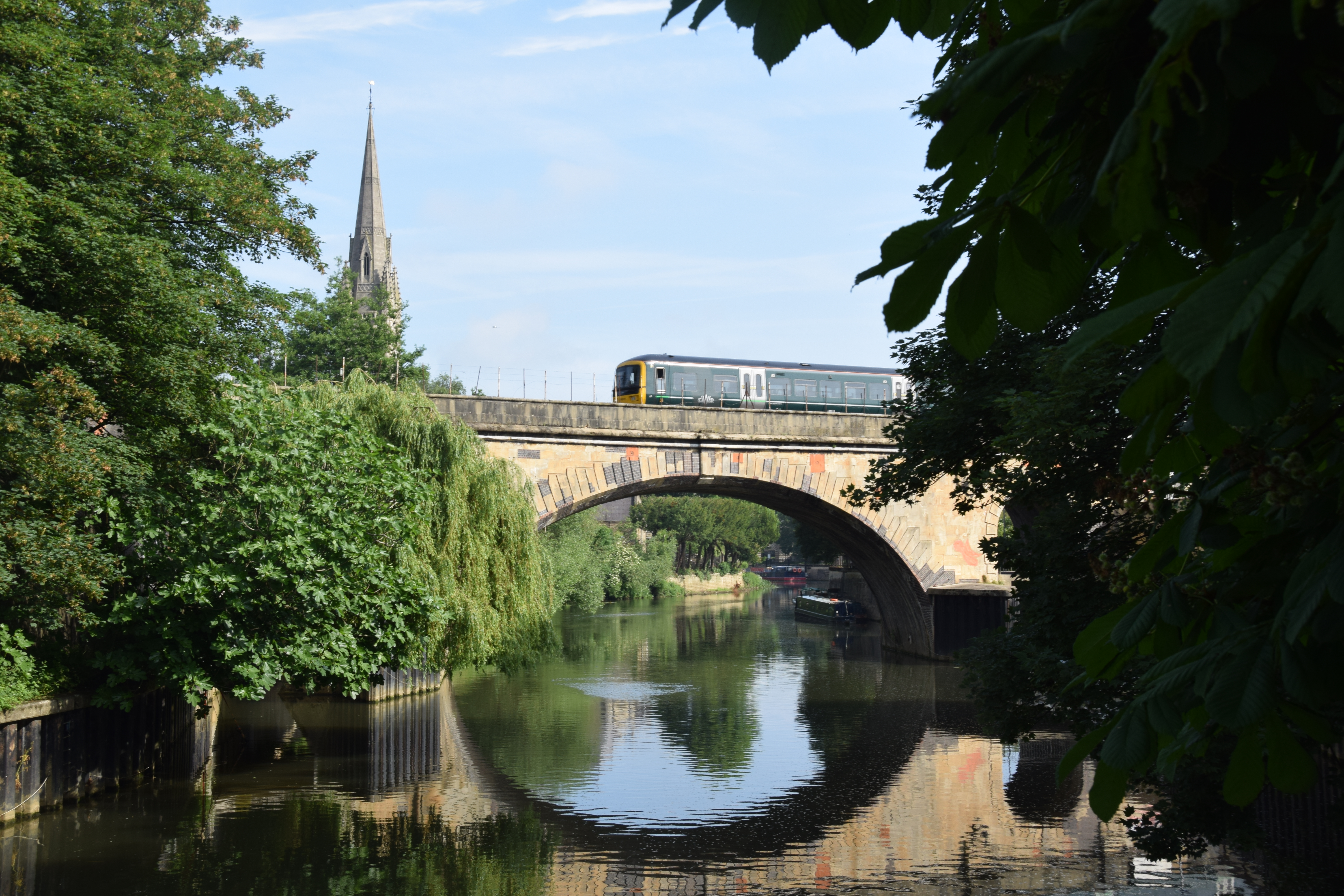 St James's Railway Bridge Carrying the Great Western Main Line over the River Avon Wikidata has entry Q26674163 with data related to this item.